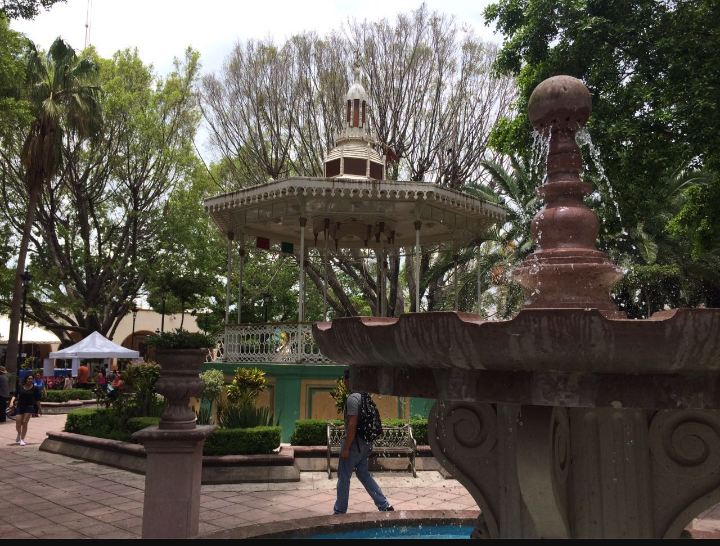 Jardín Principal de Purísima del Rincón